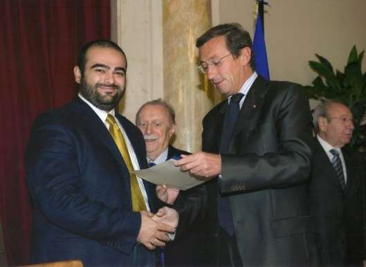 Consegna del diploma della Scuola di specializzazione ISLE (Istituto per gli studi della scienza e tecnica della legislazione) — da parte del Presidente della Camera dei Deputati, On. Gianfranco Fini.